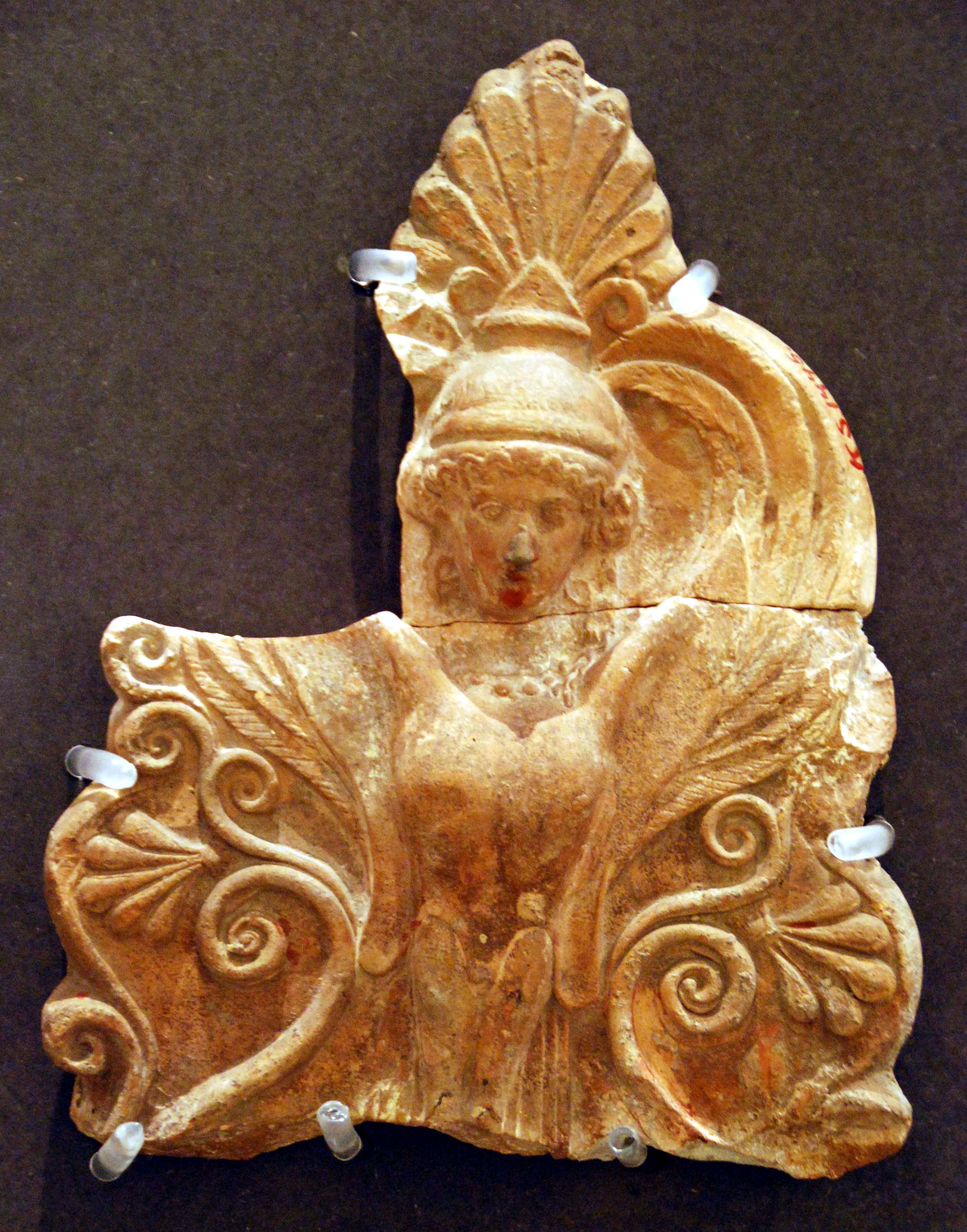 Antefix of a Campana plaque in the Museum August Kestner in Hannover (Inv.-Nr. 1445): Sirene; Clay